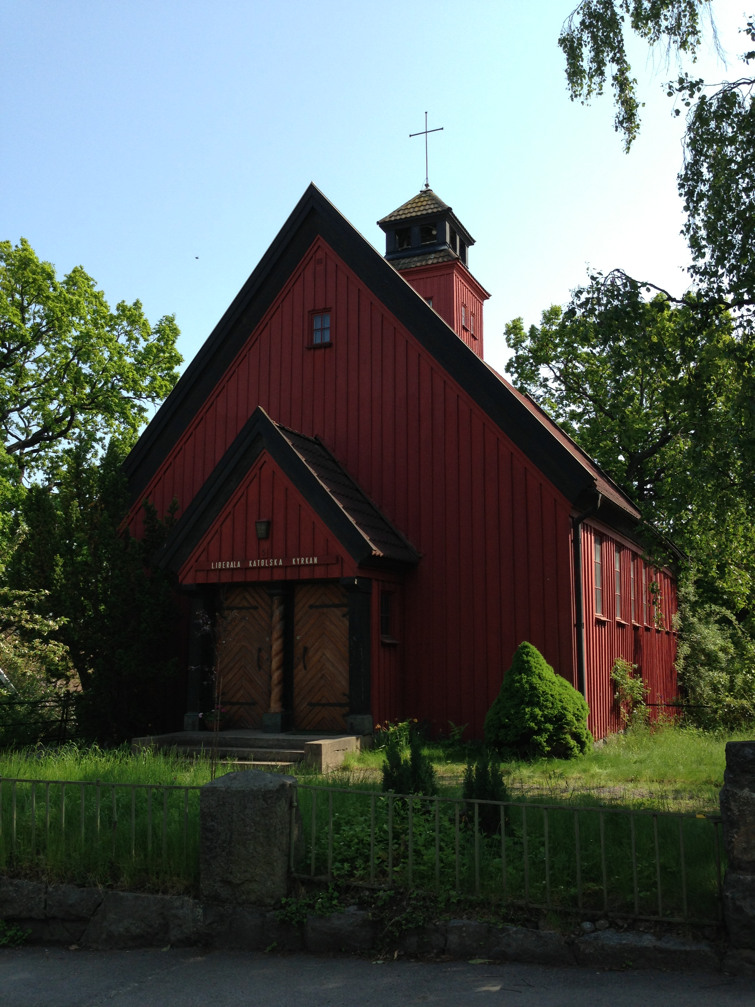 Street view of St Michael and all angels Liberal Catholic Church in Stockholm